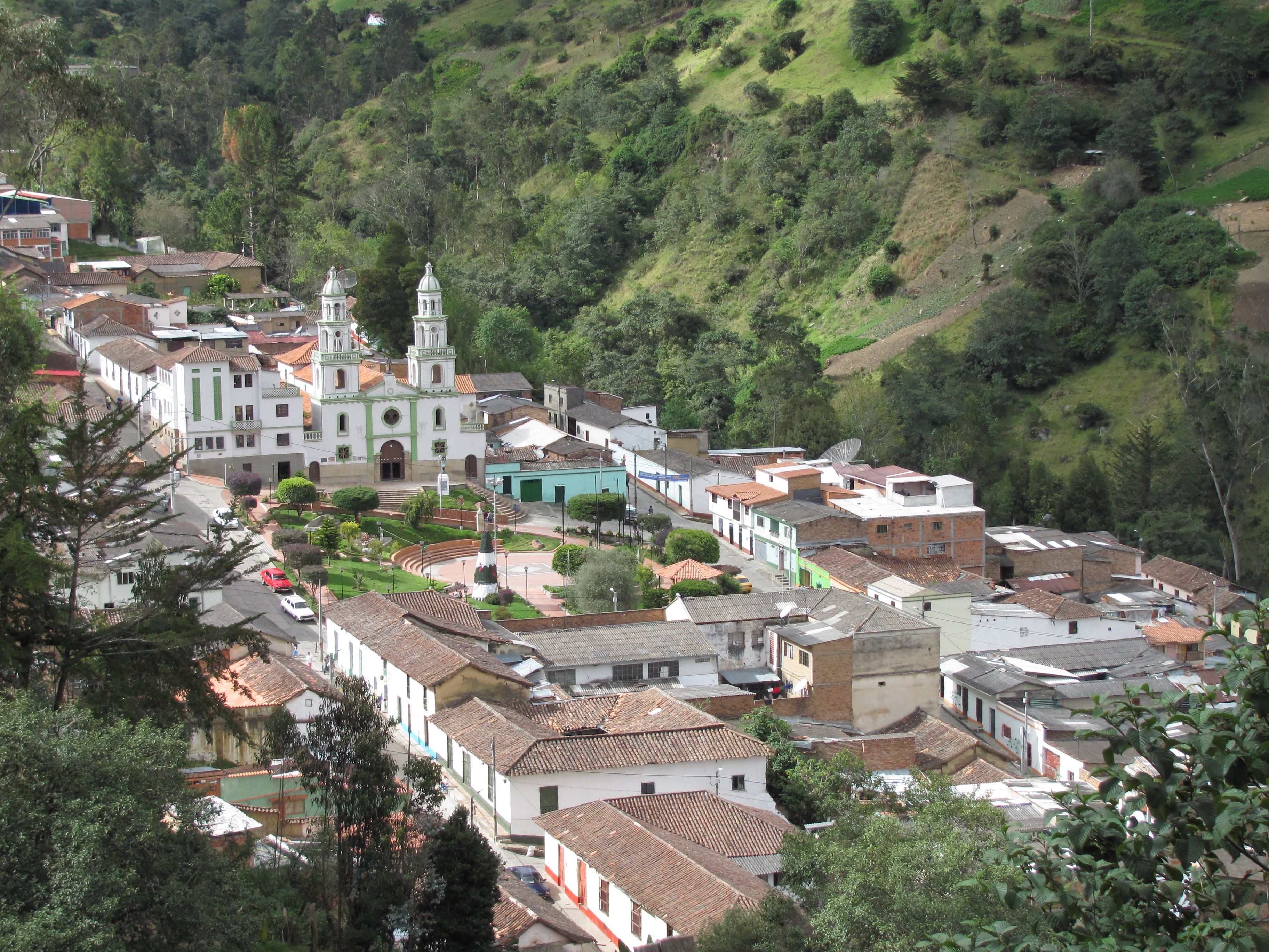 Entering the Municipality of Mutiscua.